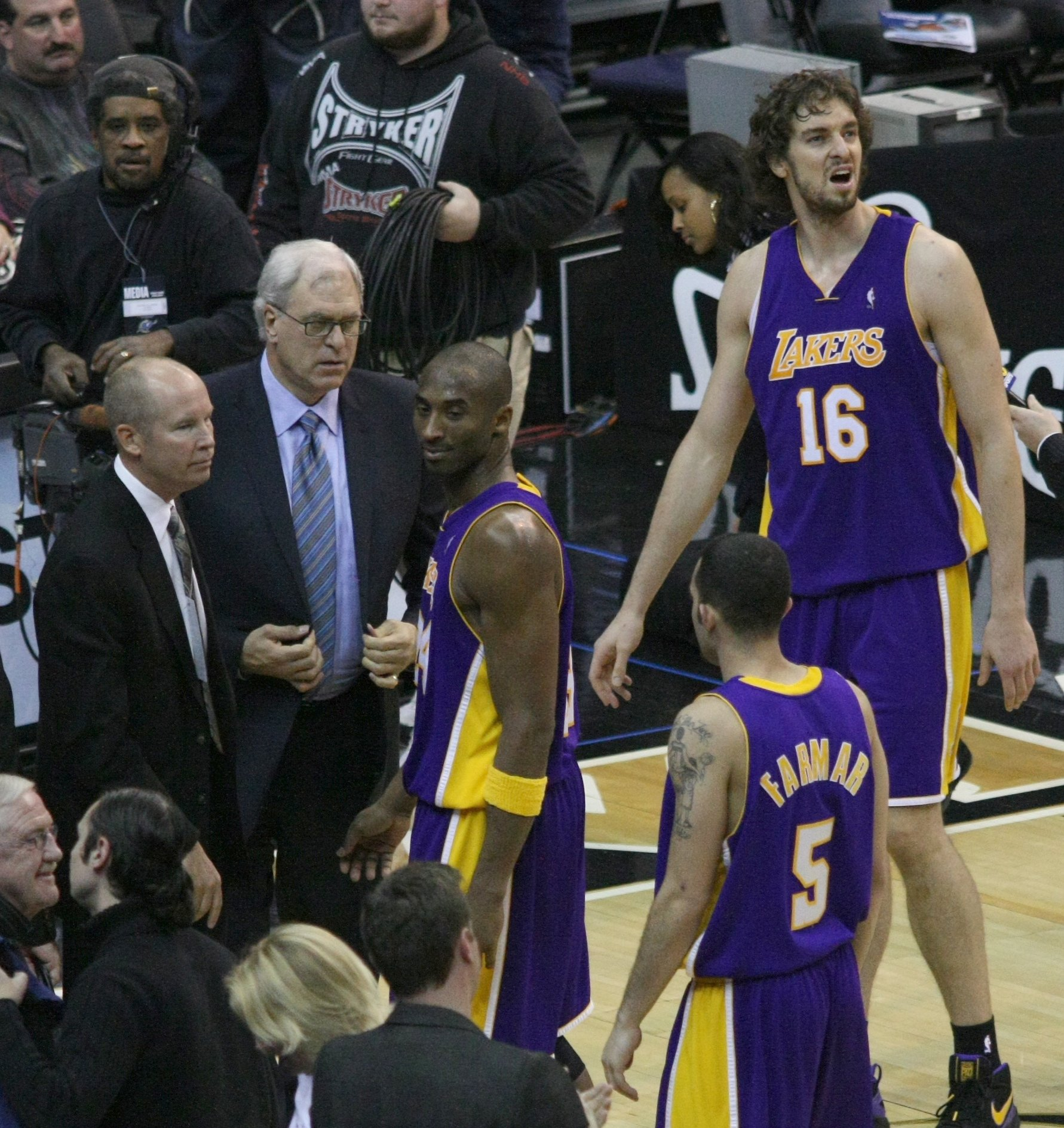 Washington Wizards v. Los Angeles Lakers, 12/05/08